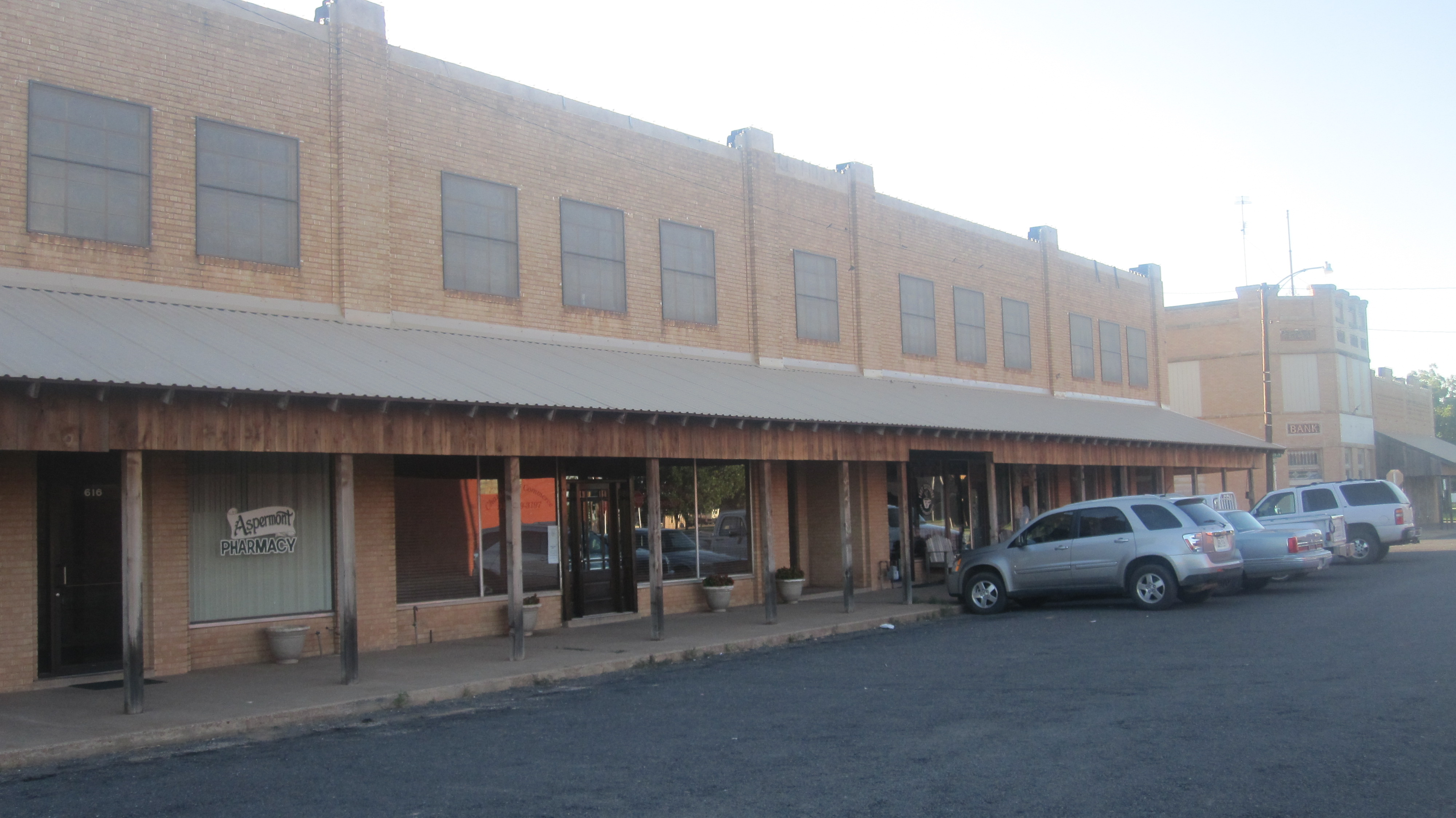 I took photo with Canon camera in Aspermont, TX.